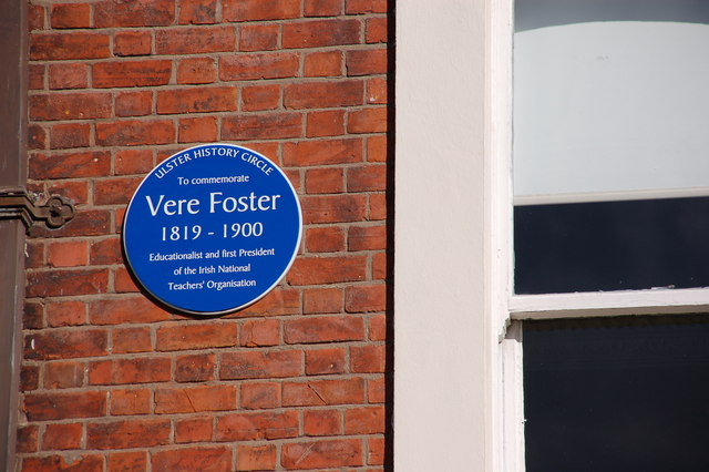 Vere Foster plaque, Belfast The plaque, on an office in College Gardens, Belfast commemorates Vere Foster. He was involved in the improvement of conditions, on emigrant ships, for famine victims sailing to America.